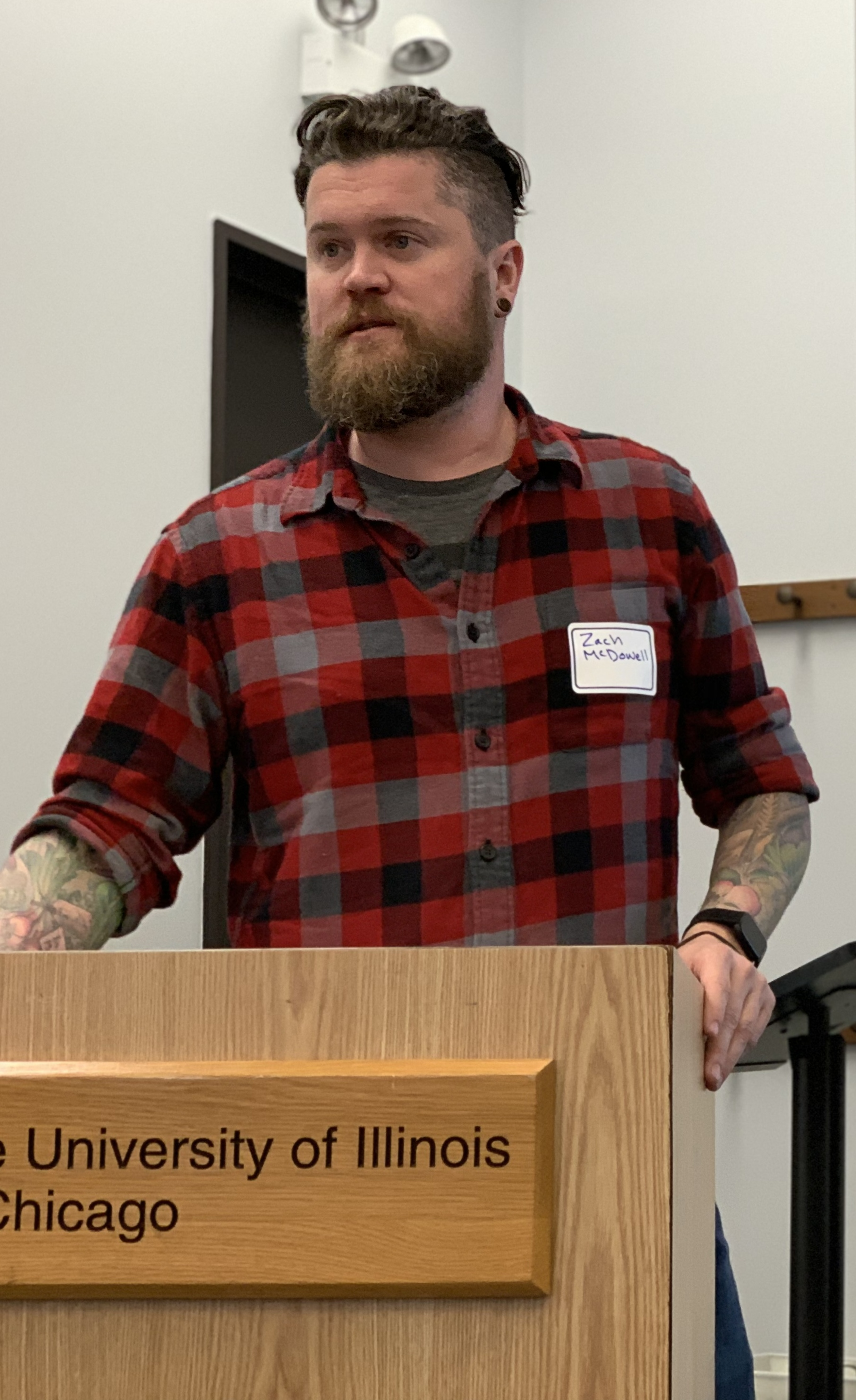 Zach McDowell gives a lightning talk at the Wikipedia Day Chicago 2019 event at University of Illinois at Chicago Daley Library.